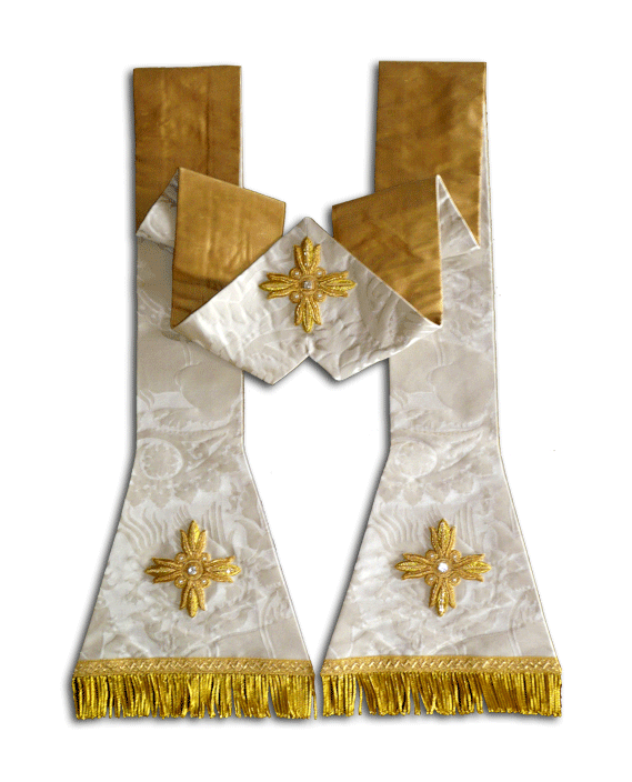 Stole